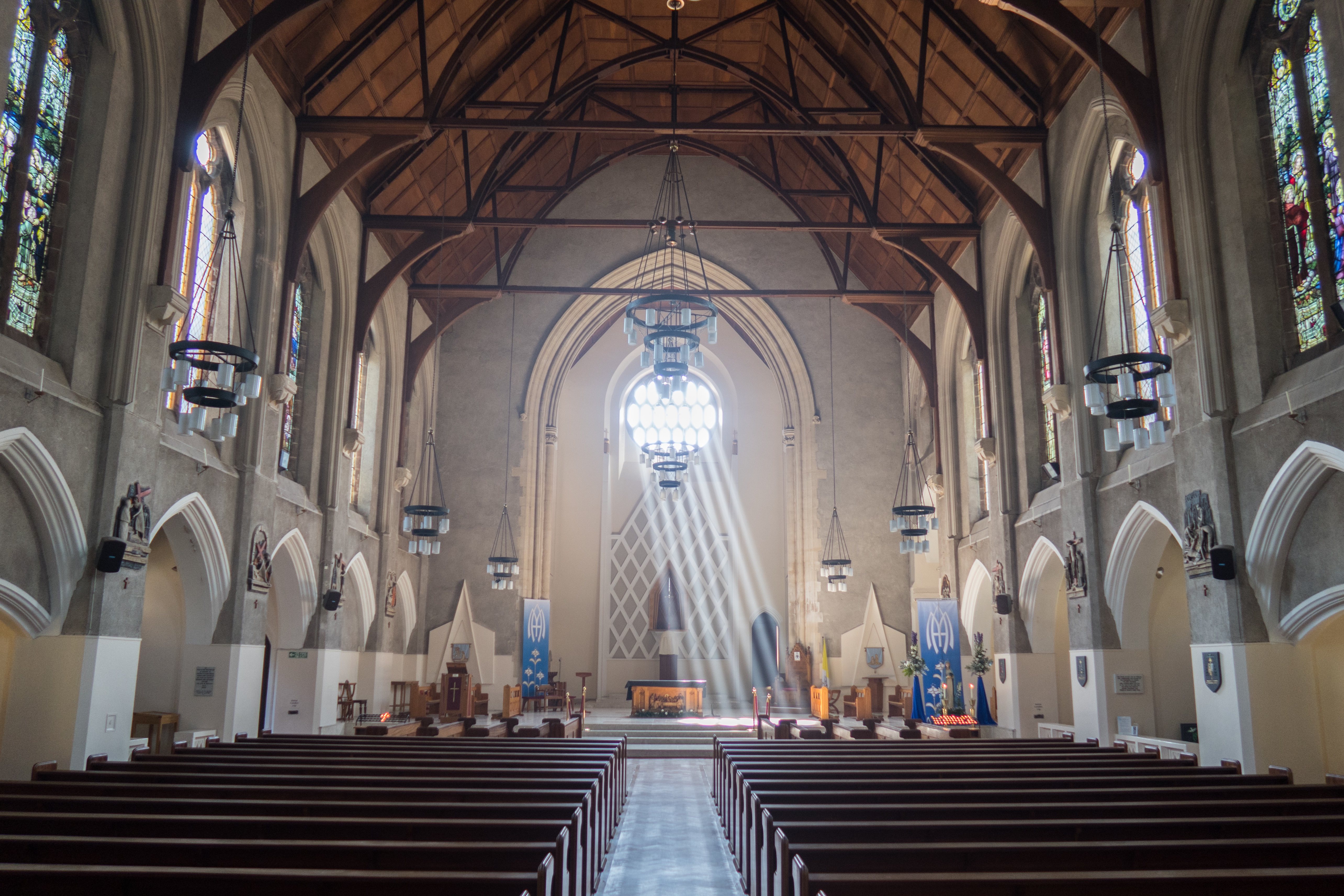 The Metropolitan Cathedral Church of St David, also known as St David's Cathedral Cardiff is a Roman Catholic Cathedral in the city centre of Cardiff, Wales and is the centre of the Roman Catholic Archdiocese of Cardiff. Located in Charles Street, the Cathedral remains the focal point for Catholic life in Cardiff, and the country as a whole. It is one of only three Roman Catholic Cathedrals in the UK which is associated with a choir school.